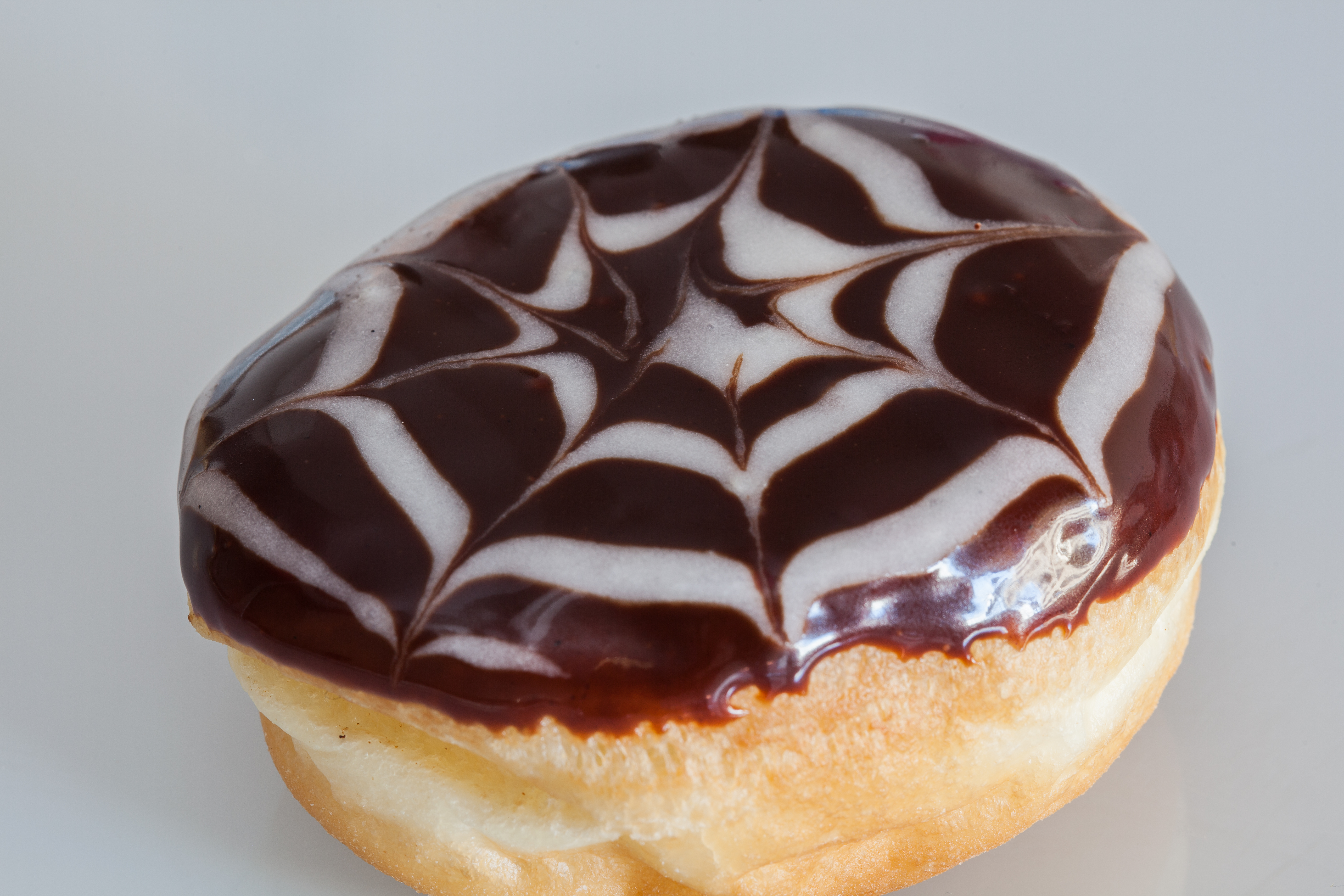 Wedding-Halloween Doughnuts 2014-356